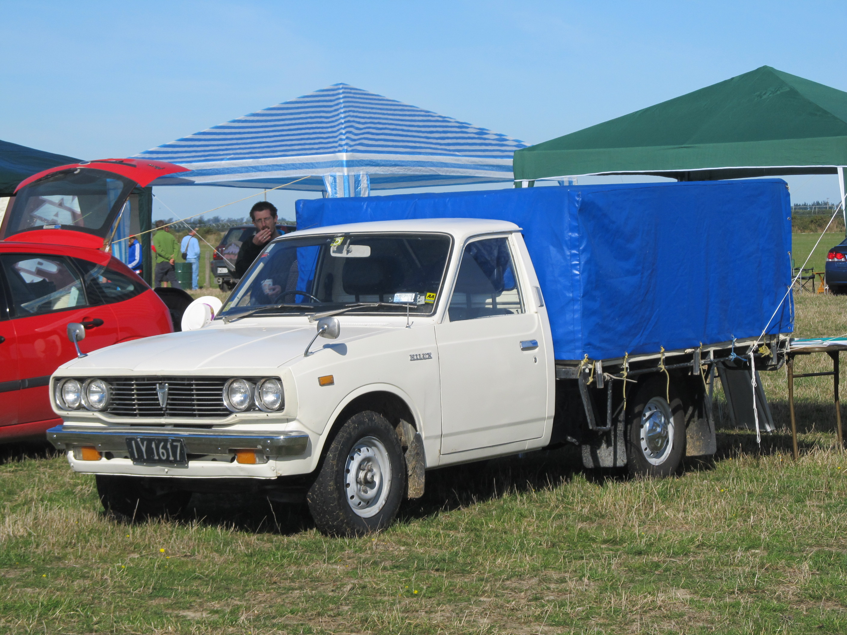 Very few of these early Hiluxes remain, and certainly not many in this condition - this one packs a comparatively small 1.6 engine.